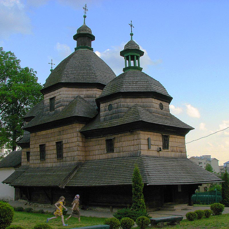 Trinity Church in Zhovkva nearly Lviv, Ukraine